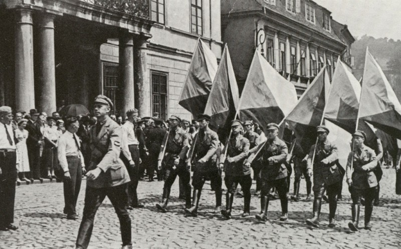 Marching Republikanische Wehr unit. Czechoslovakia, 1930s.